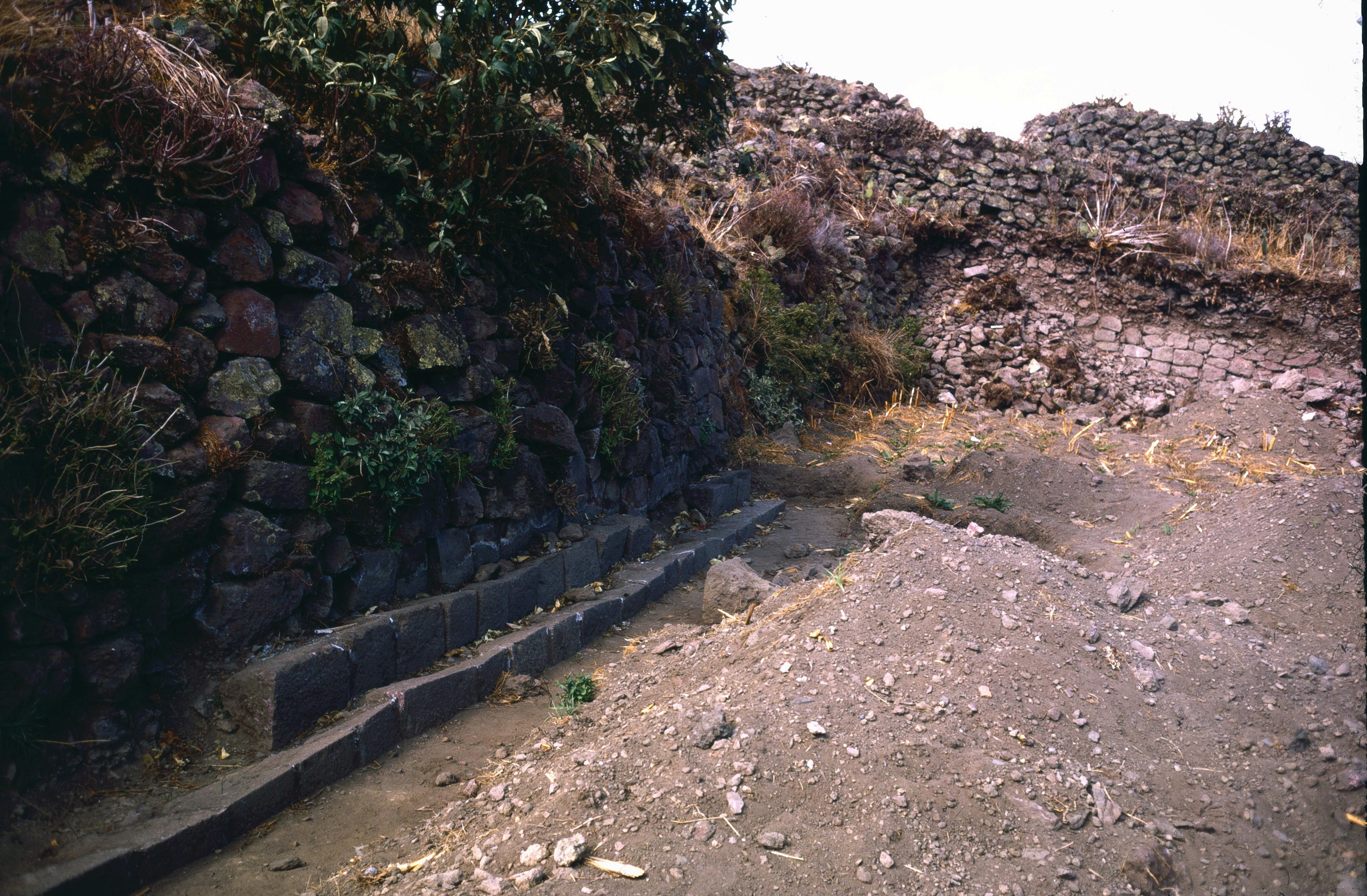 Teotenango, Estado de México, Mexico: first steps of excavation